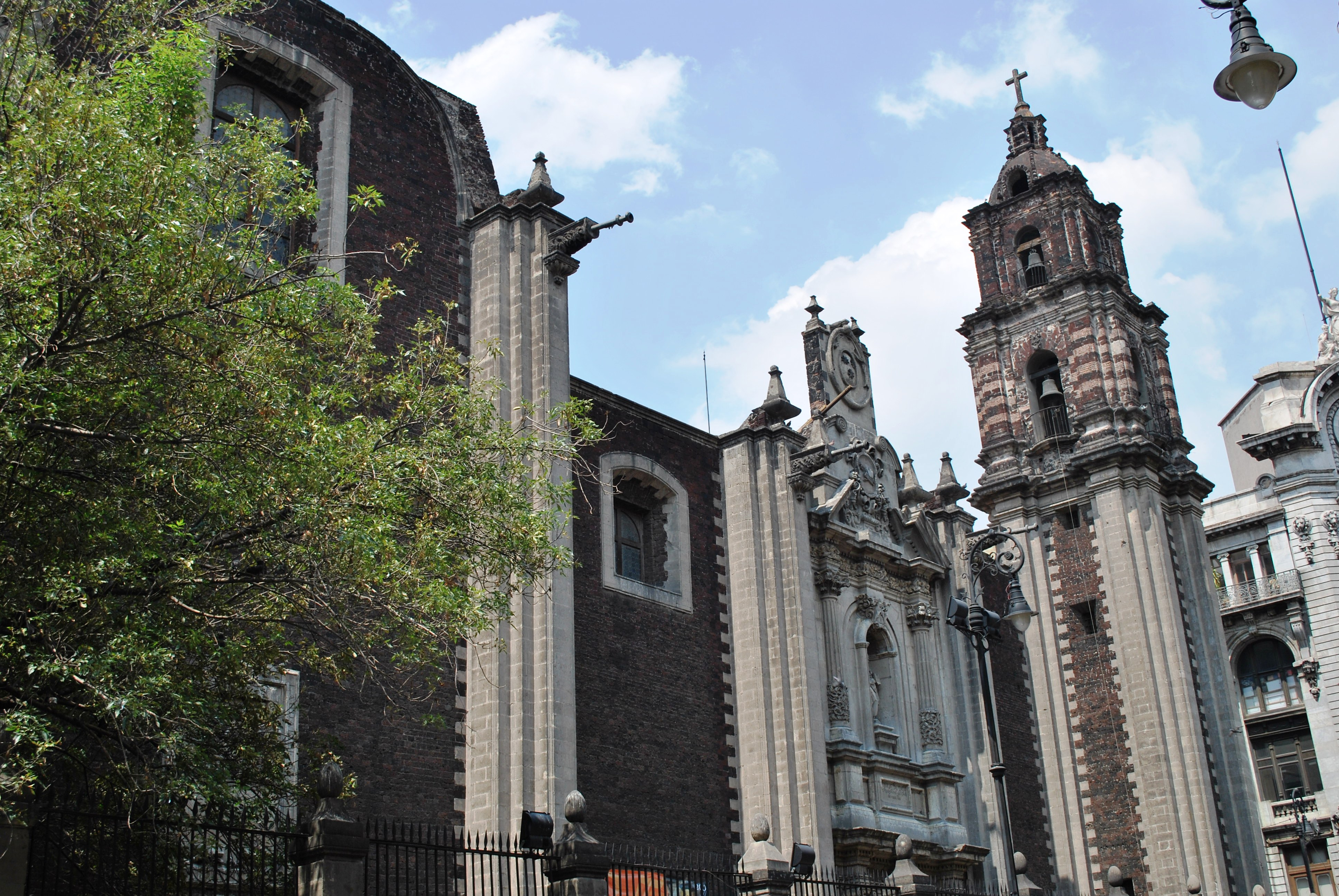 South side of La Profesa Church located in the historic center of Mexico City